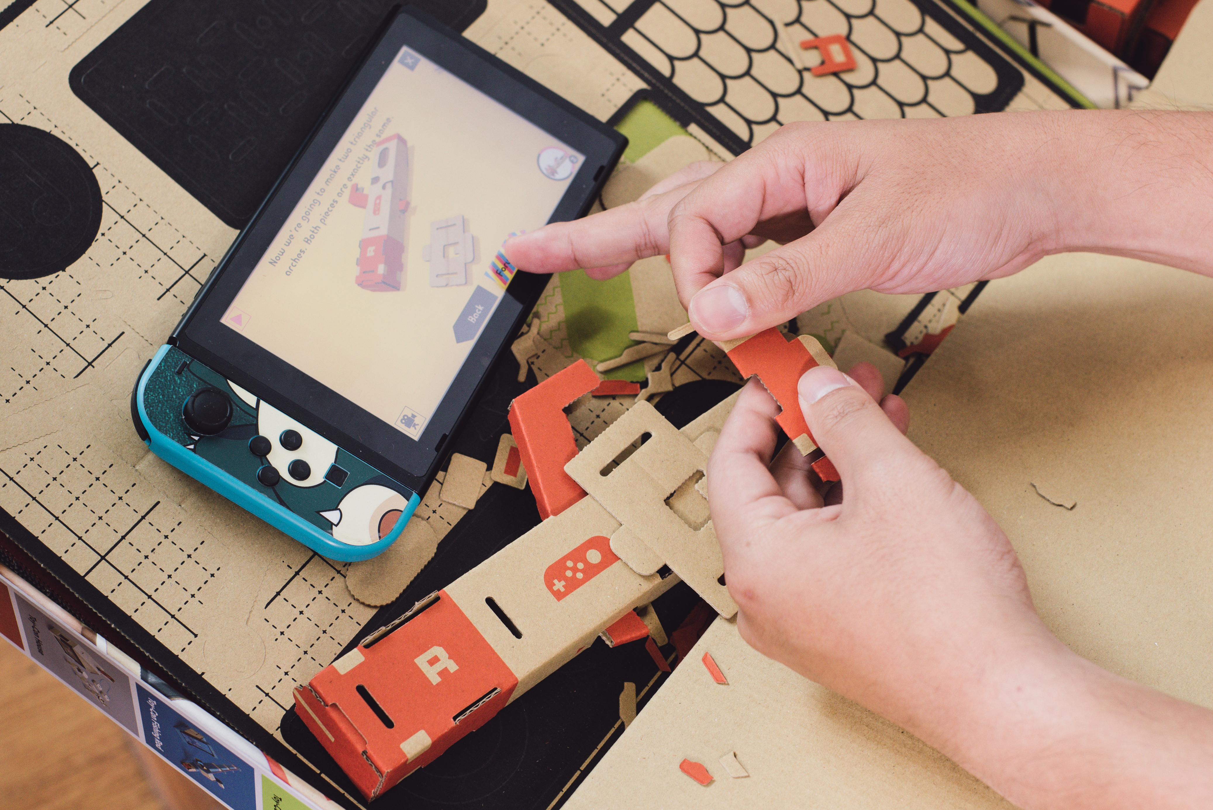 An in-progress construction of a Nintendo Labo Toy-Con. While the on-screen instructions (on the Switch unit) are copyrighted, the image is considered in de minimus to the overall purpose of the photo.